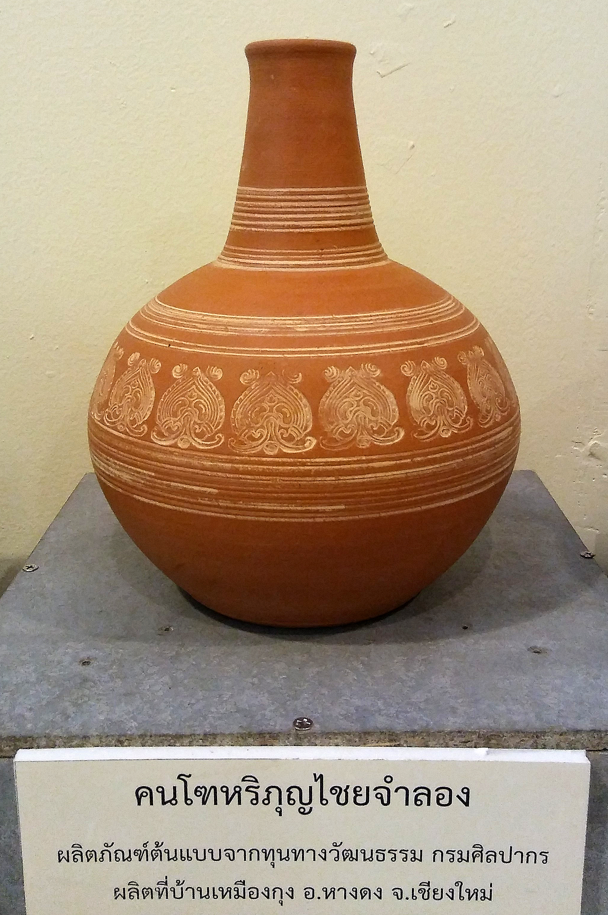 Hariphunchai National Museum, Lamphun, Thailand; glazed earthenware in the permanent exhibition of the museum